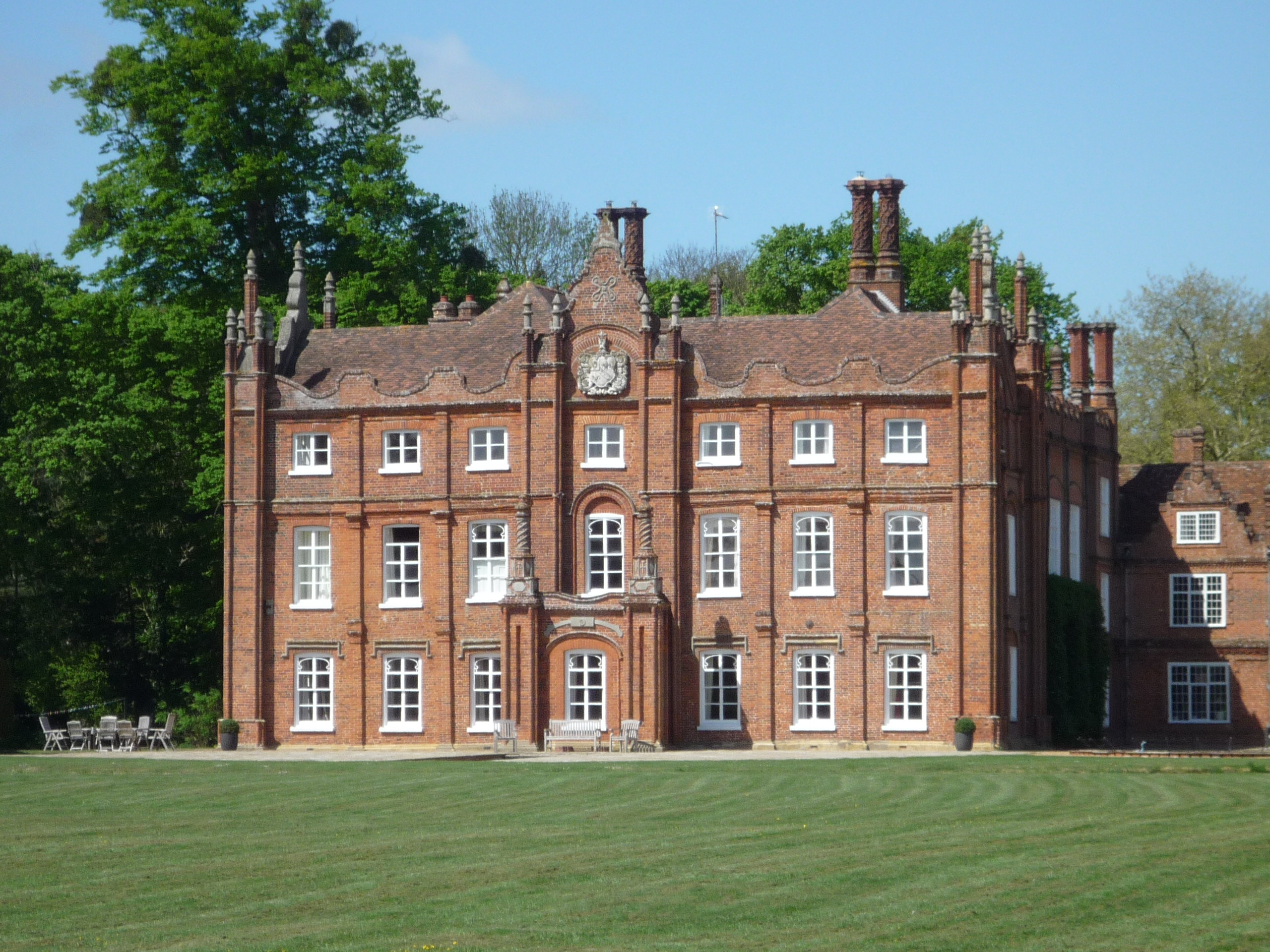 Cockfield Hall, Yoxford, Suffolk, England